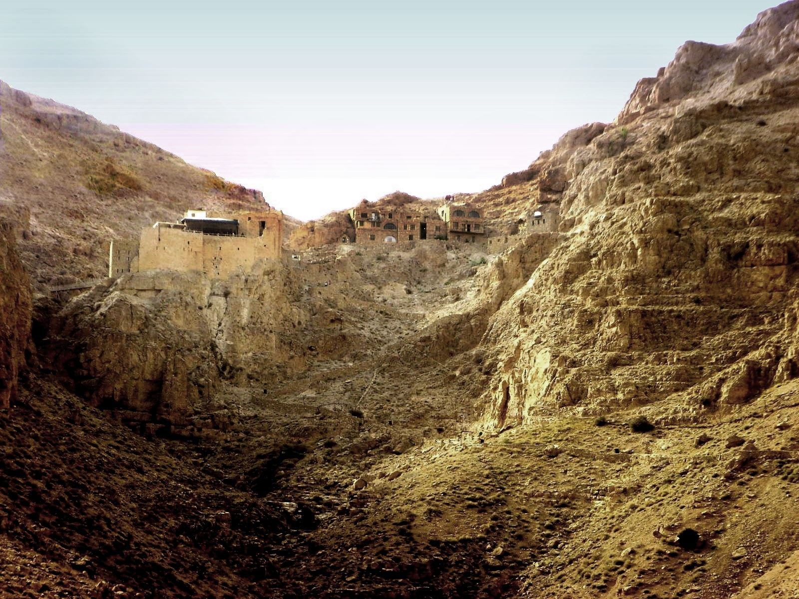 The monastery of Deir Mar Musa